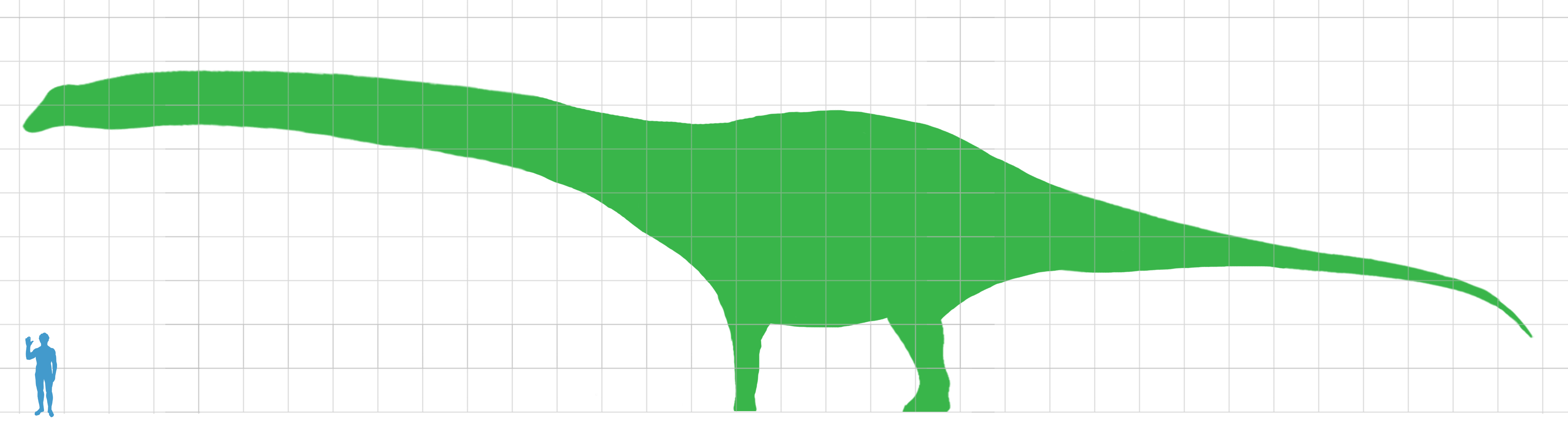 Size of Argentinosaurus compared with a human. Scaled based on the vertebra and tibia hight reported in the original description, with proportions of neck and tail based on the related Dreadnoughtus.